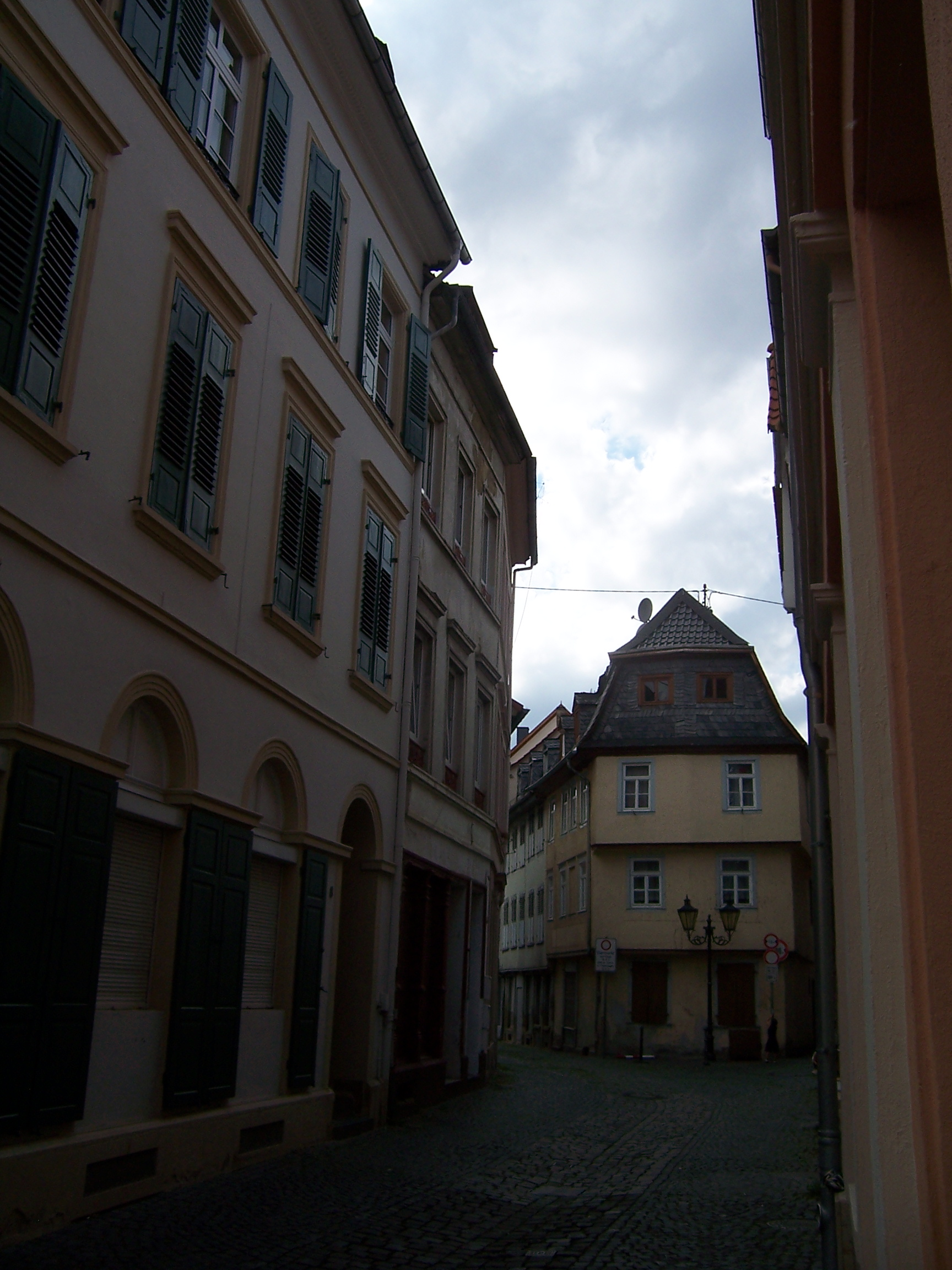 Street in the older part of Bad Kreuznach